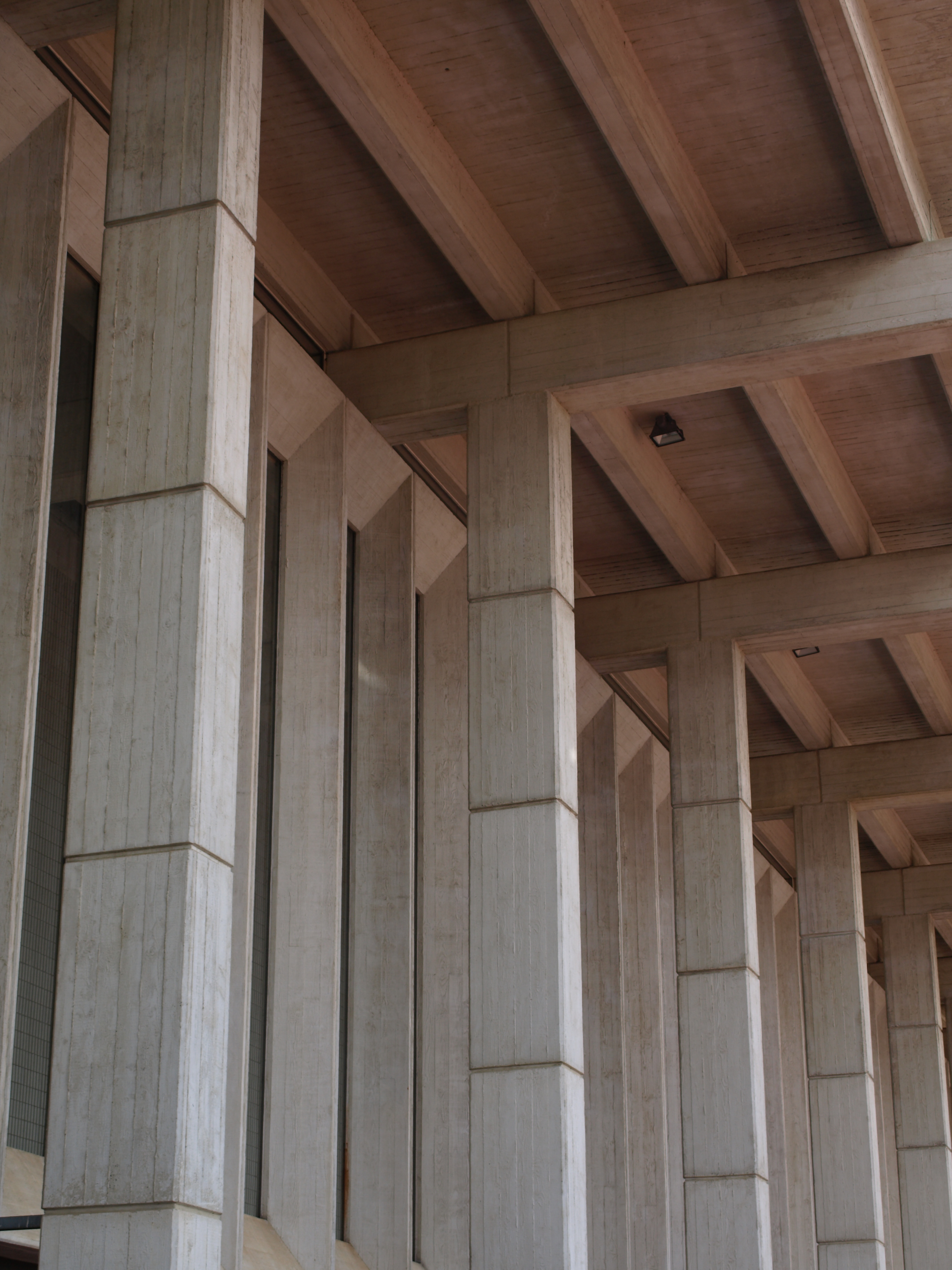 Architectural detail of the southern exterior of the Perth Concert Hall in Perth, Western Australia.